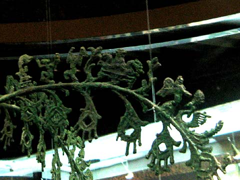 Money tree of the Eastern Han dynasty at Sanxingdui Museum, excavated from Mianyang, Sichuan in China. Curving branches of the tree support vignettes of Xi Wang Mu, the Queen Mother of the West, surrounded by her retinue.